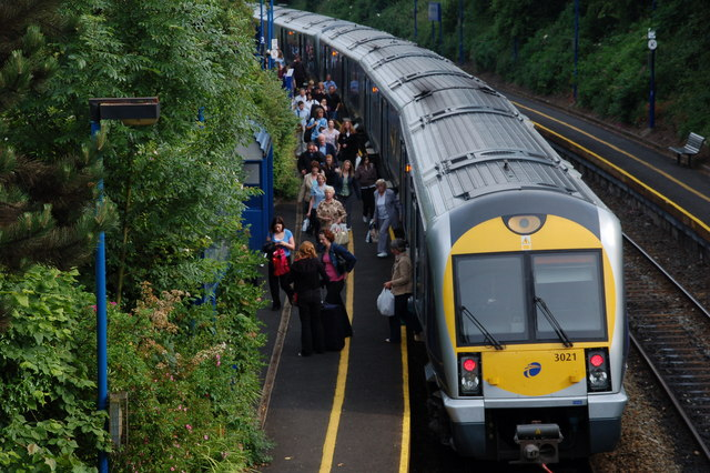 Bangor West station, Northern Ireland Railways. The Belfast and County Down Railway opened a station at Bangor West in 1928 to cater for the expanding population in the area. The railway remains a favourite way of travelling to work in Belfast. The photo shows returning commuters alighting from the 17.05 Belfast (Gt. Victoria St) - Bangor.